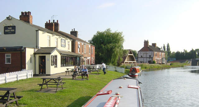 Stainforth Original description: New Inn, Stainforth The New Inn at Stainforth is situated on the bank of the Stainforth and Keadby Canal.